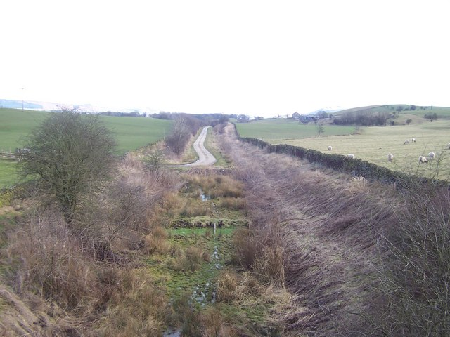 Disused Railway, near Elslack